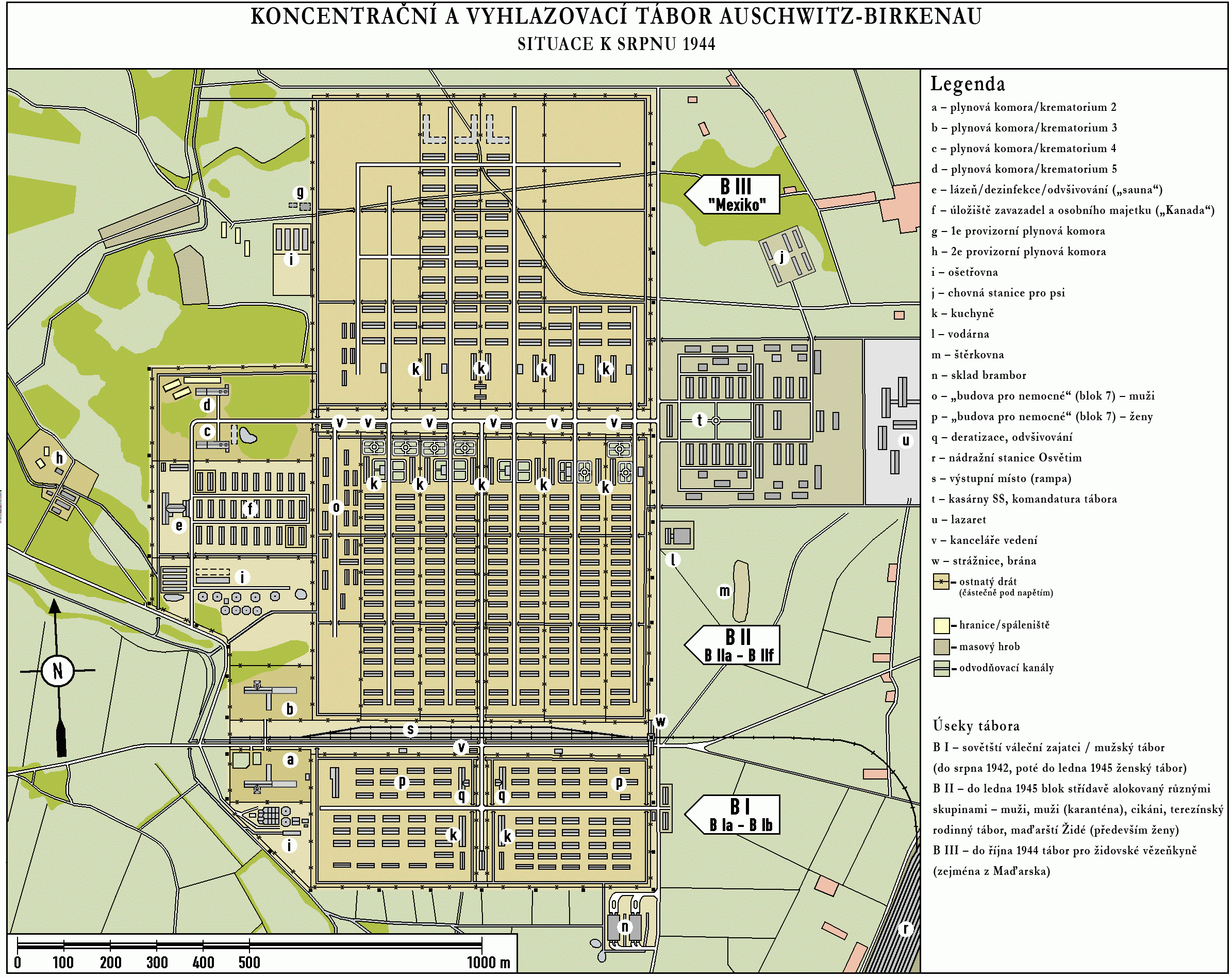 map of Auschwitz II (Birkenau) as it was in August 1944